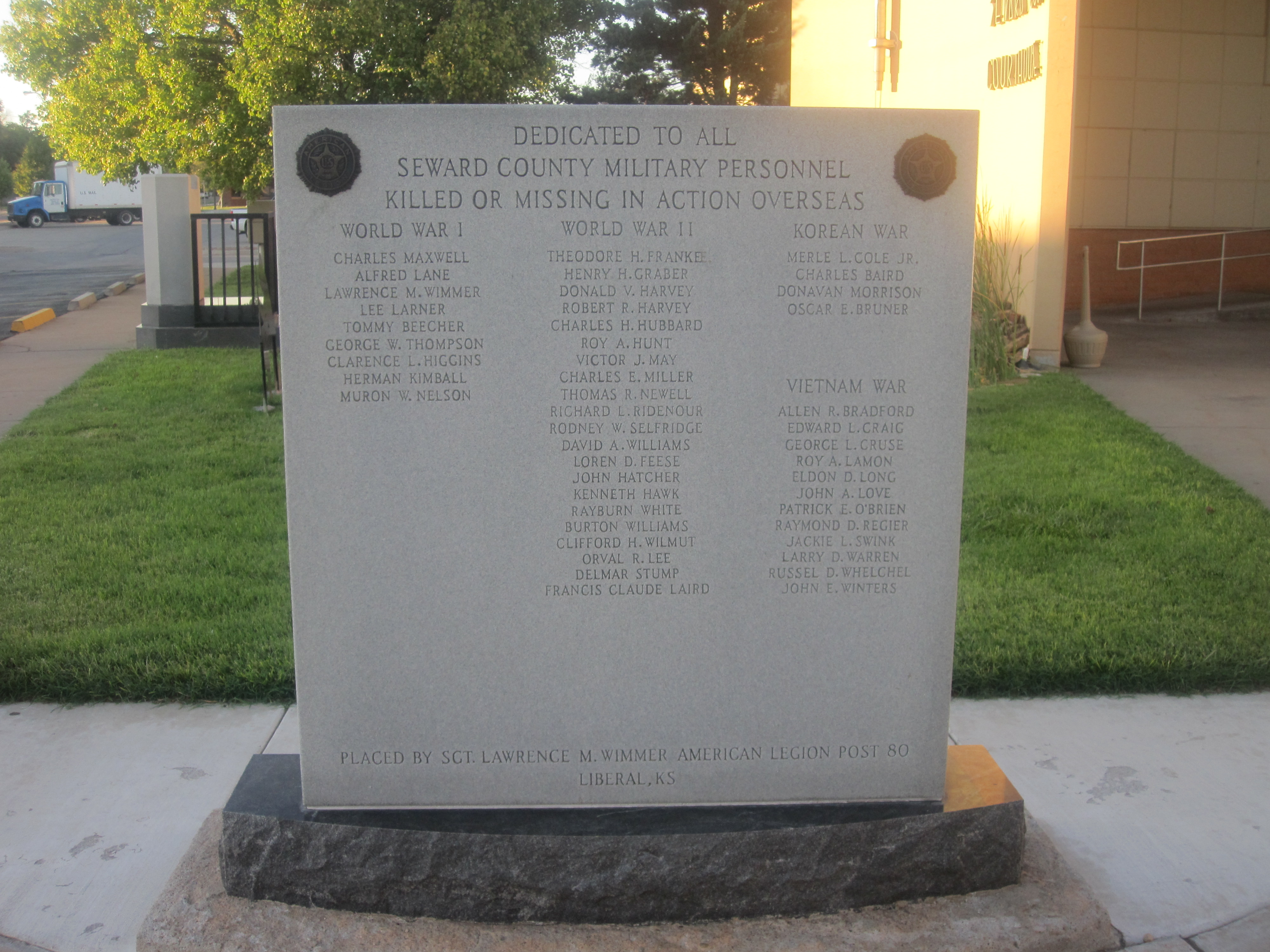 I took photo with Canon camera in Liberal, KS.